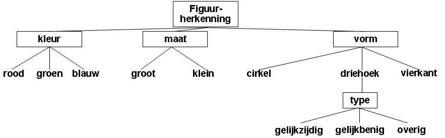 Headers of an Classification Tree.